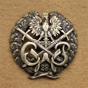 Poland, badge of the Infantry Training Centre - Rembertów (for leavers).